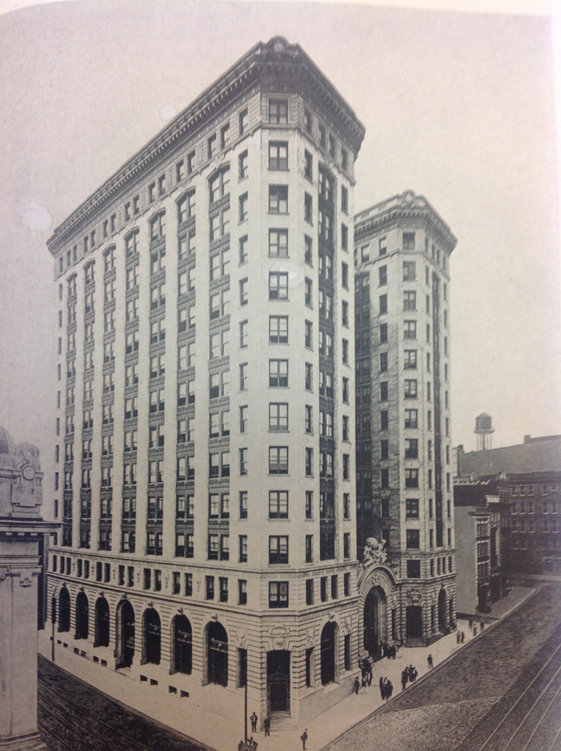 B&O Headquarters Building, circa 1910, soon after completion of construction. Note the trolley tracks on North Charles and West Baltimore Streets.